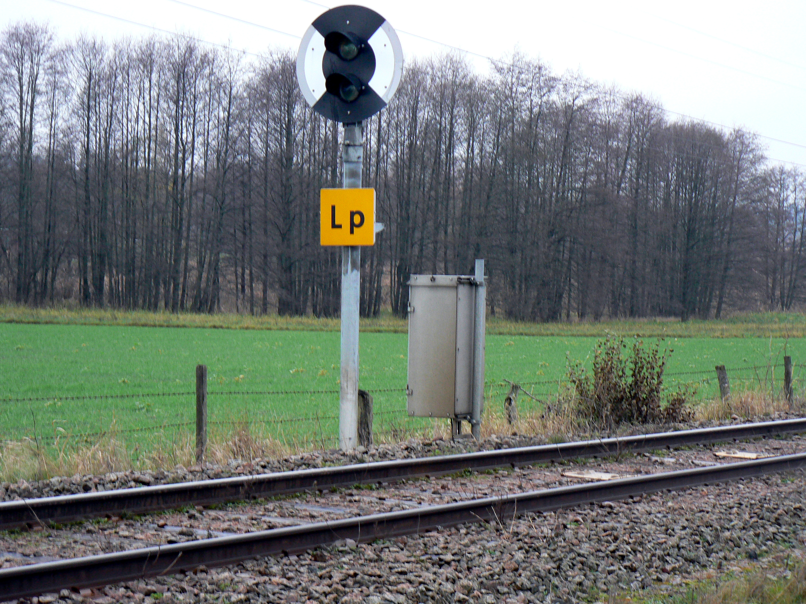 Railroad signal and sign with the letters Lp for Linköping. Photo by Skvattram 2006-11-16.